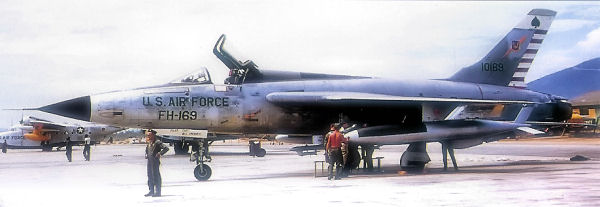 F-105D Serial 61-0169 of the 563d TFS - Takhli Air Base, Thailand.